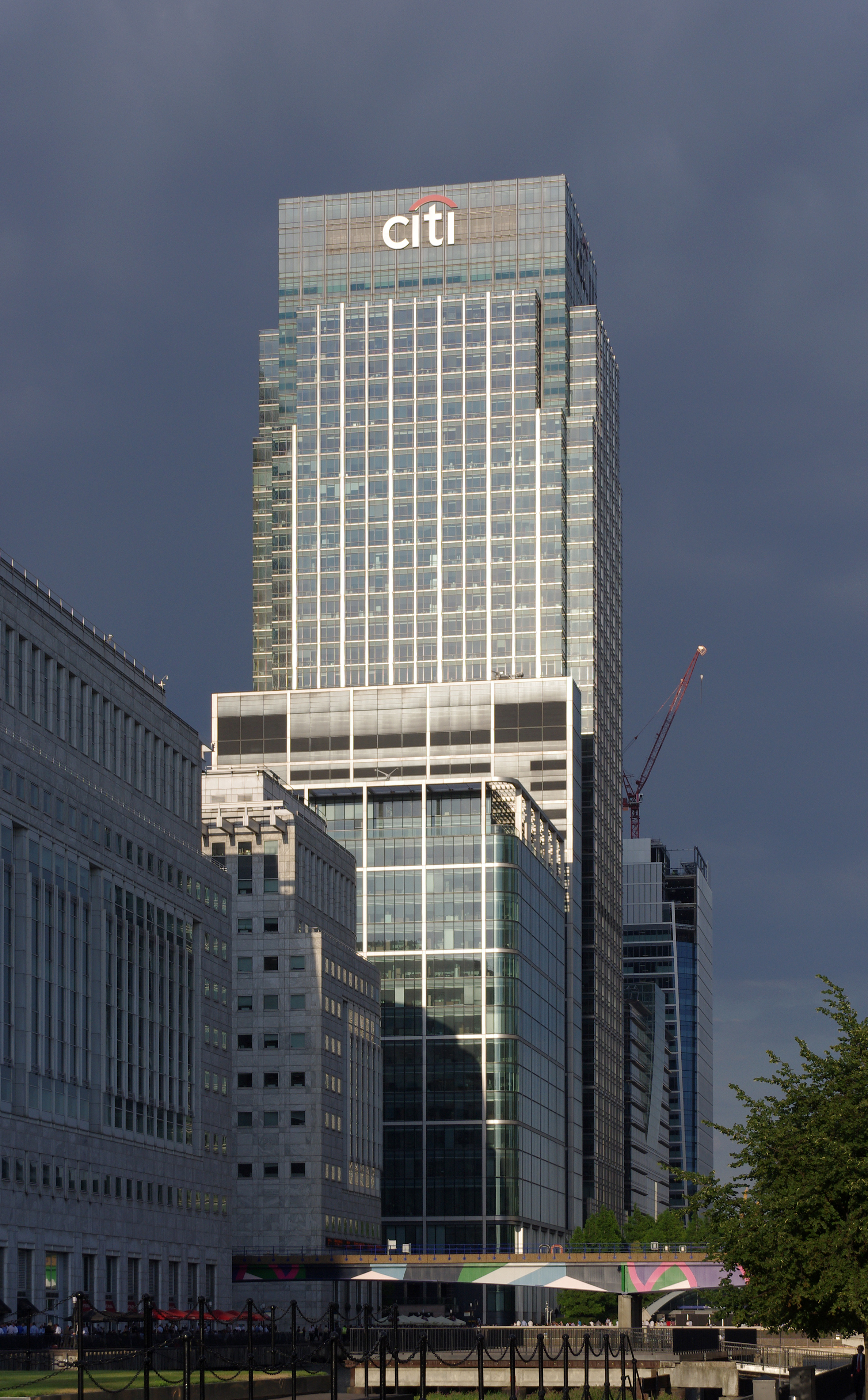 Evening in Canary Wharf - the Citigroup Centre.